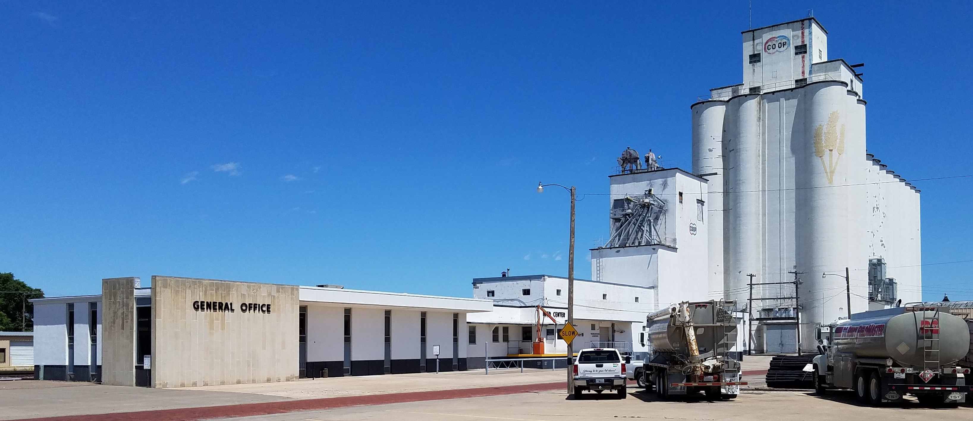 "Farmers Co-op elevator" in Hays, Kansas. Operated by Midland Marketing Coop.